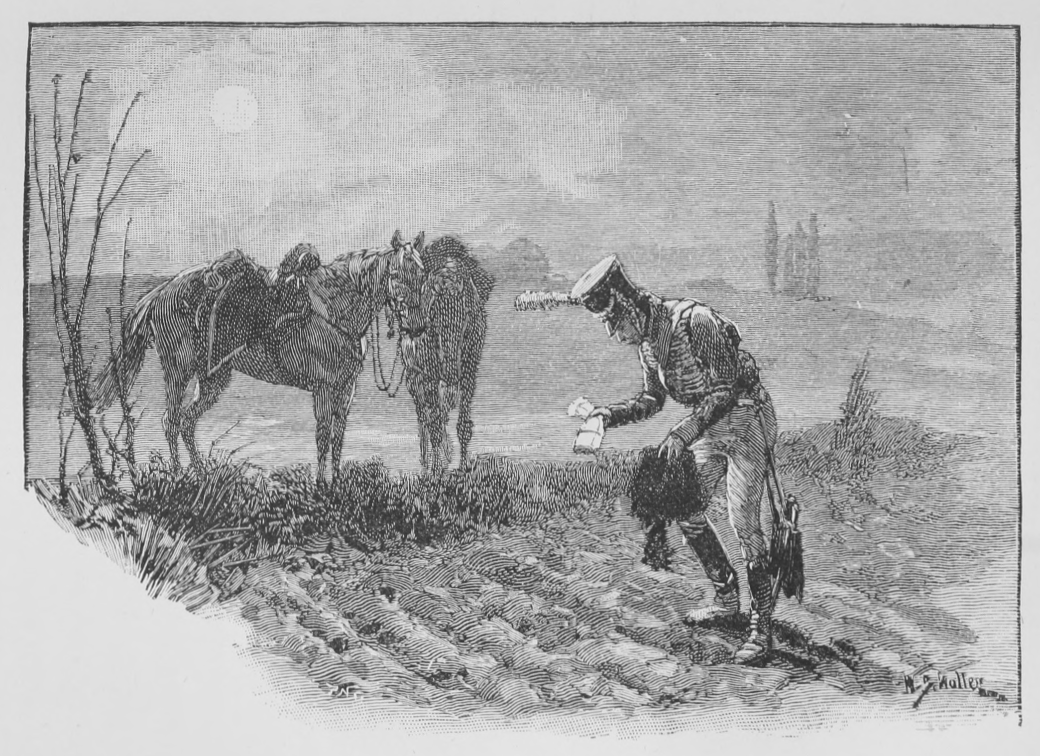 Plate of The Exploits of Brigadier Gerard